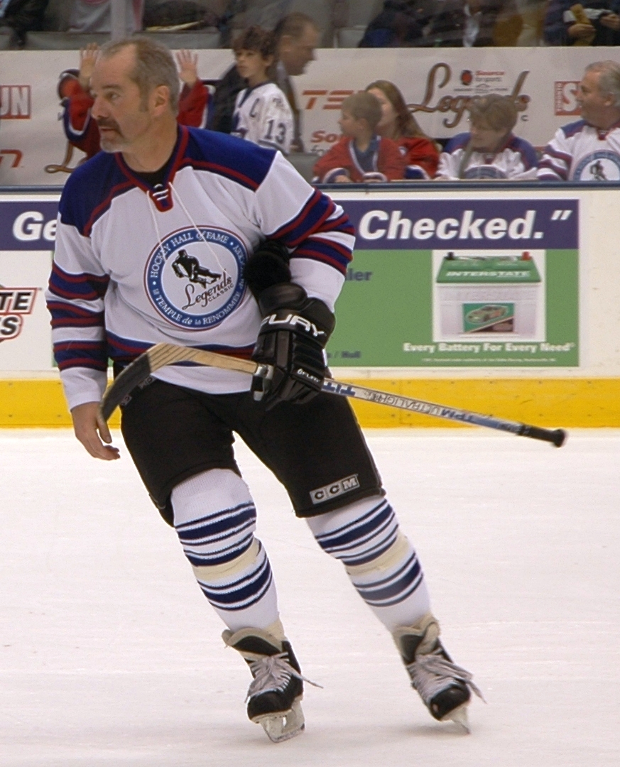 Michel Goulet played with the All-Star Legends 2008 in Toronto